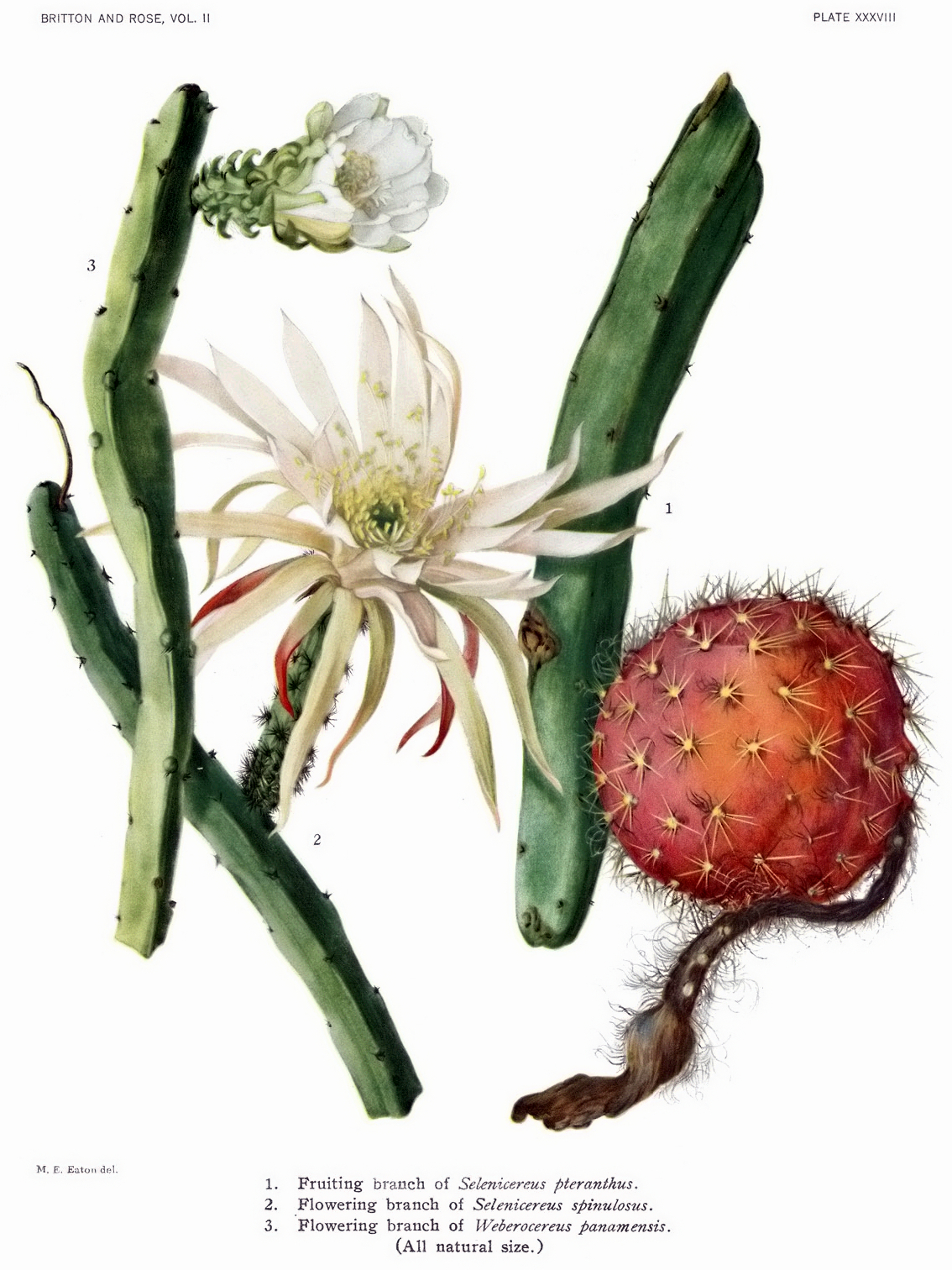 1. Fruiting branch of Selenicereus pteranthus 2. Flowering branch of Selenicereus spinulosus, 3. Flowering branch of Weberocereus panamensis